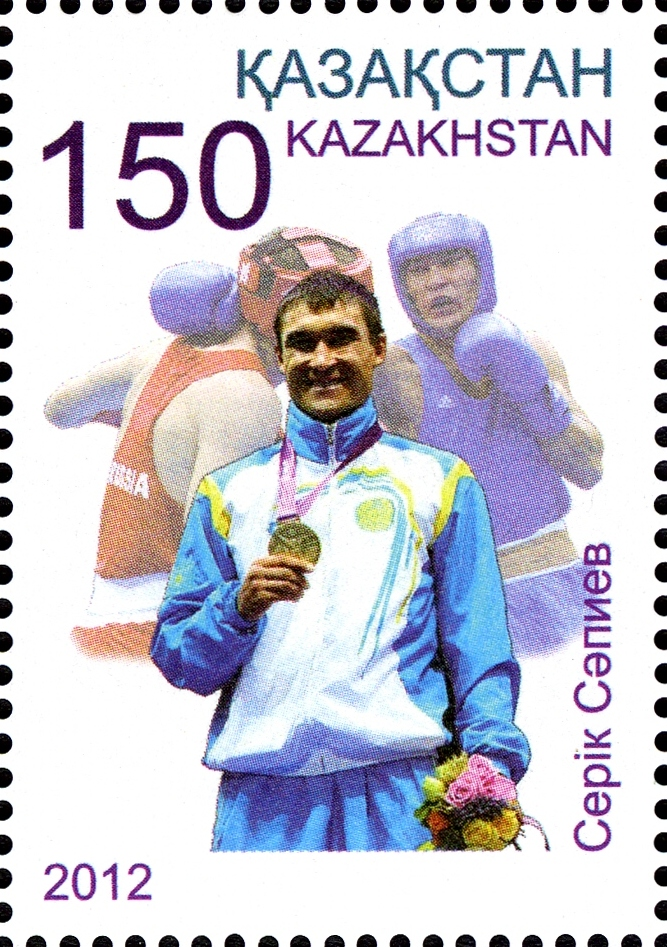 Stamps of Kazakhstan, 2013